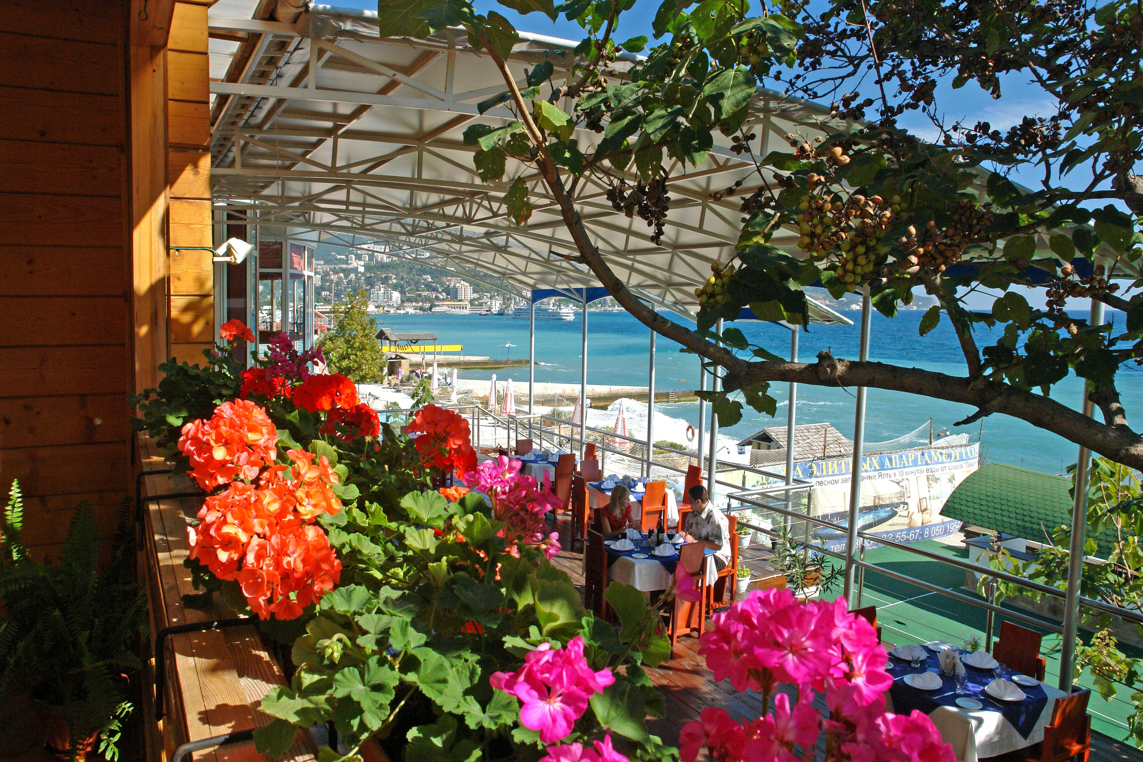 Терраса отеля "Левант"